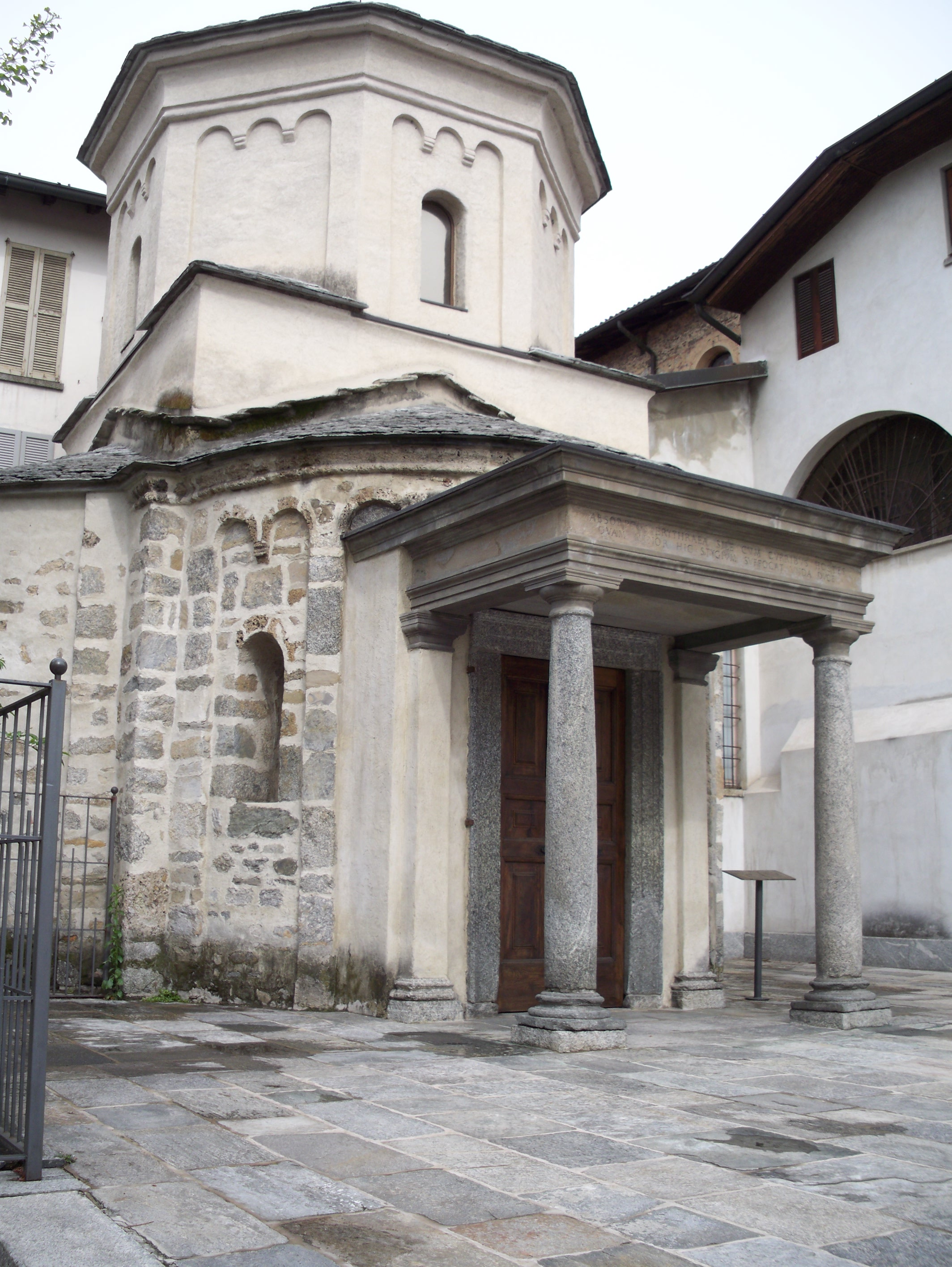 Mariano Comense - Baptistery of San Giovanni Battista